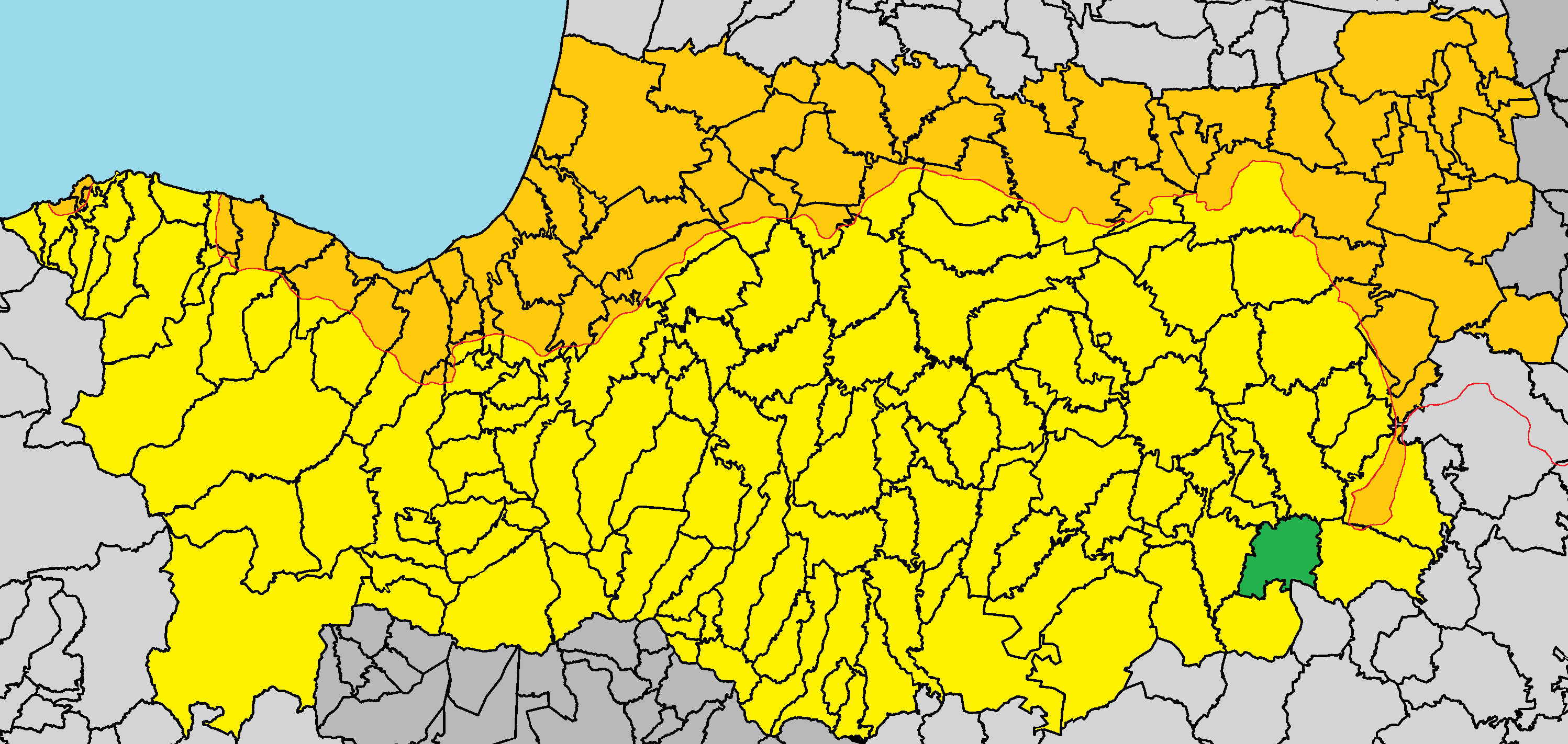 Alampra in Nicosia District.